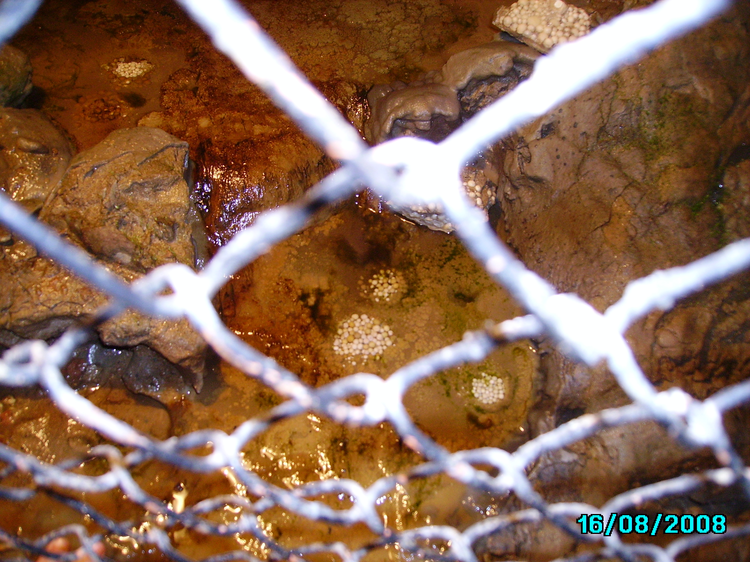 Yagodinska cave,Cave pearls